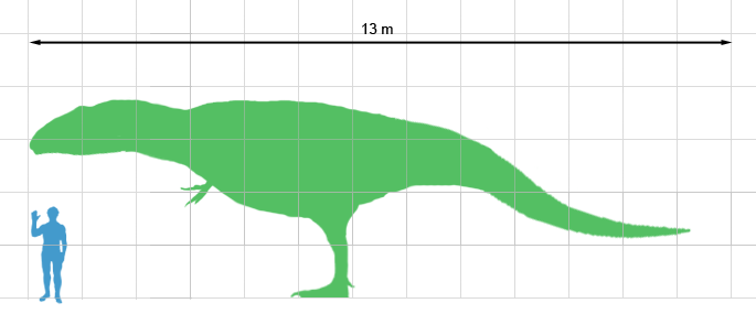 Size comparison of Giganotosaurus and a human